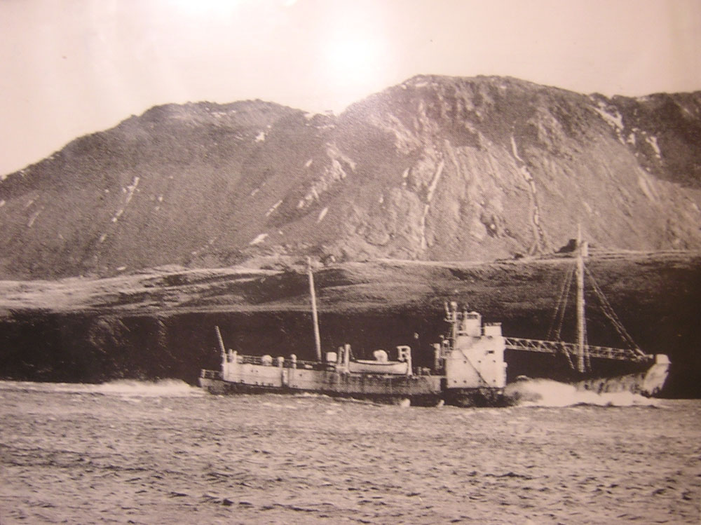 Argentine coast guard patrol vessel PNA Delfín (GC-13)